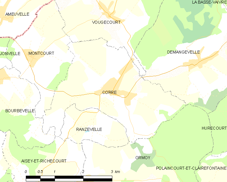 Map of French municipality